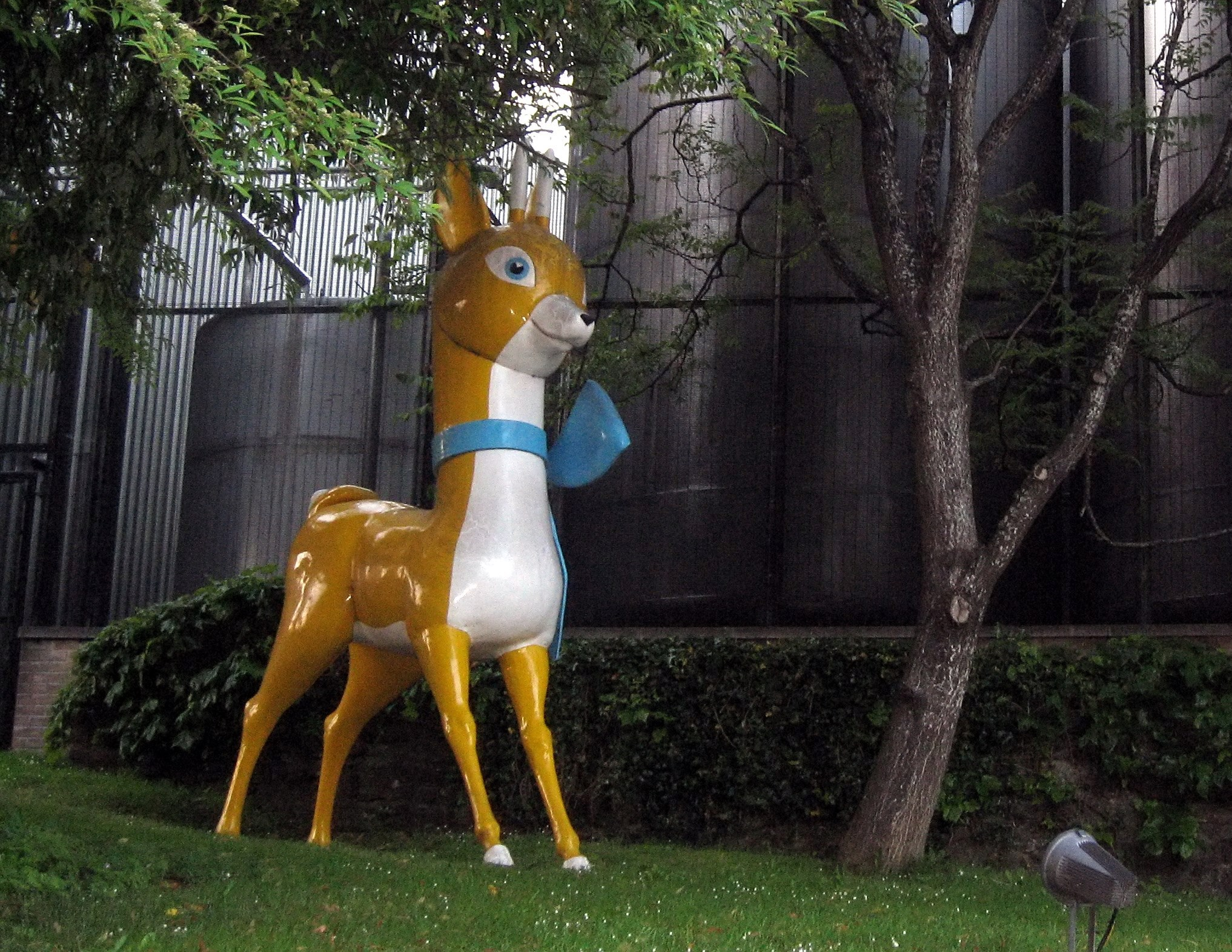 This fawn, the trademark for Babycham sparkling perry, is outside the Shepton Mallet, Somerset, UK factory where it is produced. The drink, an early ready-mixed drink aimed with pioneering marketing at women, was invented by Shepton drinksmaker Francis Showering in the 1950s, and is now owned by Constellation Brands. The figure was once on the roof of the factory but now faces the passing traffic at road level.